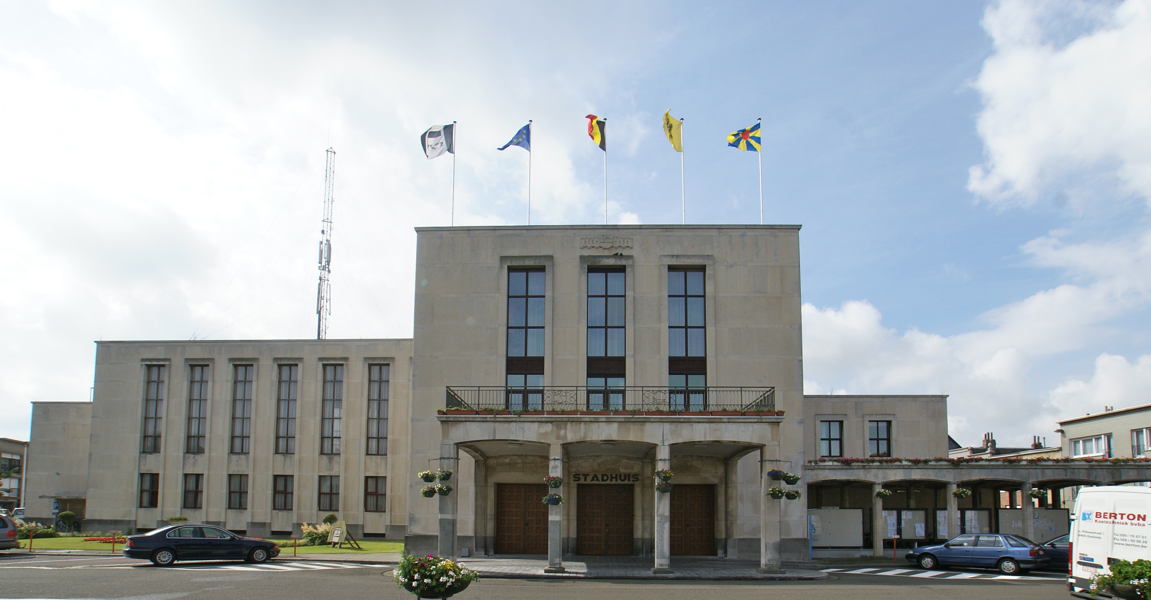 Blankenberge (Belgium): Town Hall 1952-1953 (architects: R. Plisnier & D. Van den Berge)